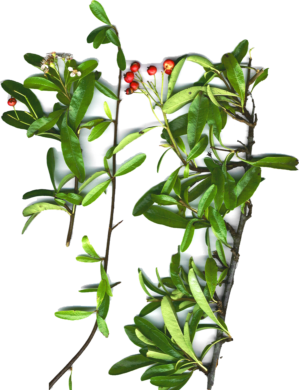 Pyracantha angustifolia (plant). Location: Maui, Polipoli campground